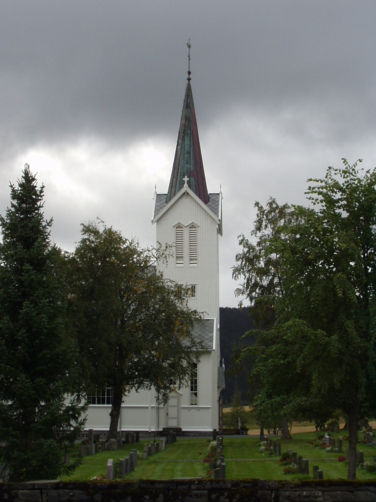 Åsen Kirke